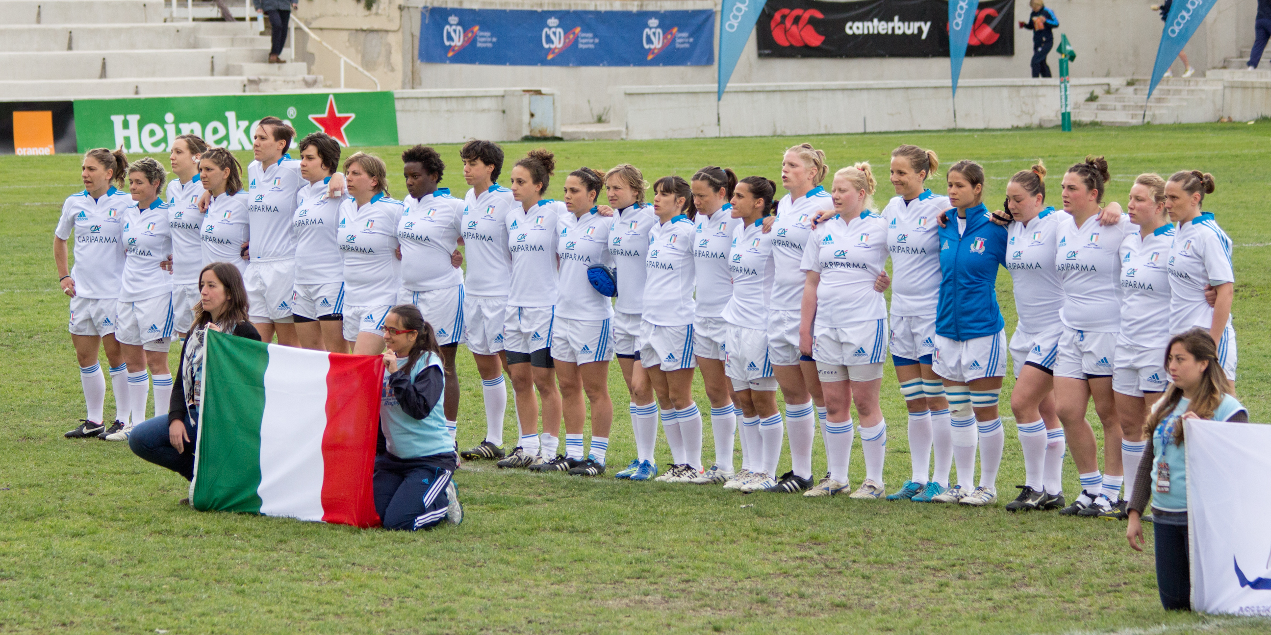 Italy national rugby union team during the Qualification Tournament for WRWC France 2014. From left to right: Sofia Stefan, Michela Tondinelli, Elisa Giordano, Cecilia Zublena, Alessia Pantarotto, Ilaria Arrighetti, Sara Zanon, Awa Coulibaly, Manuela Furlan, Michela Sillari, Maria Grazia Cioffi, Paola Zangirolami, Maria Diletta Veronese, Veronica Schiavon, Sara Barattin, Flavia Severin, Michela Este, Alice Trevisan, Cristina Molic, Lucia Gai, Melissa Bettoni, Marta Ferrari and Silvia Gaudino (captain).